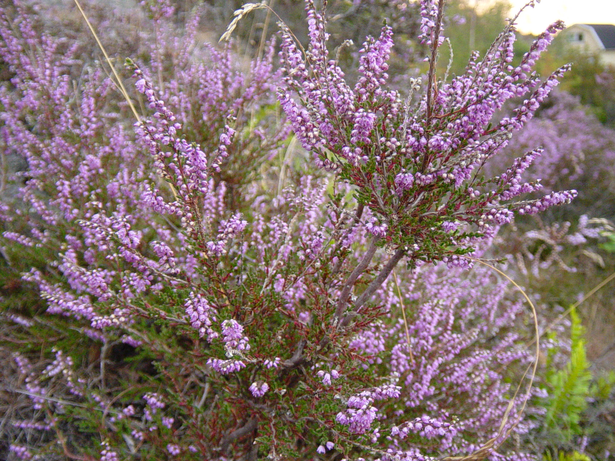 Björkö island Västra GötalandsSweden